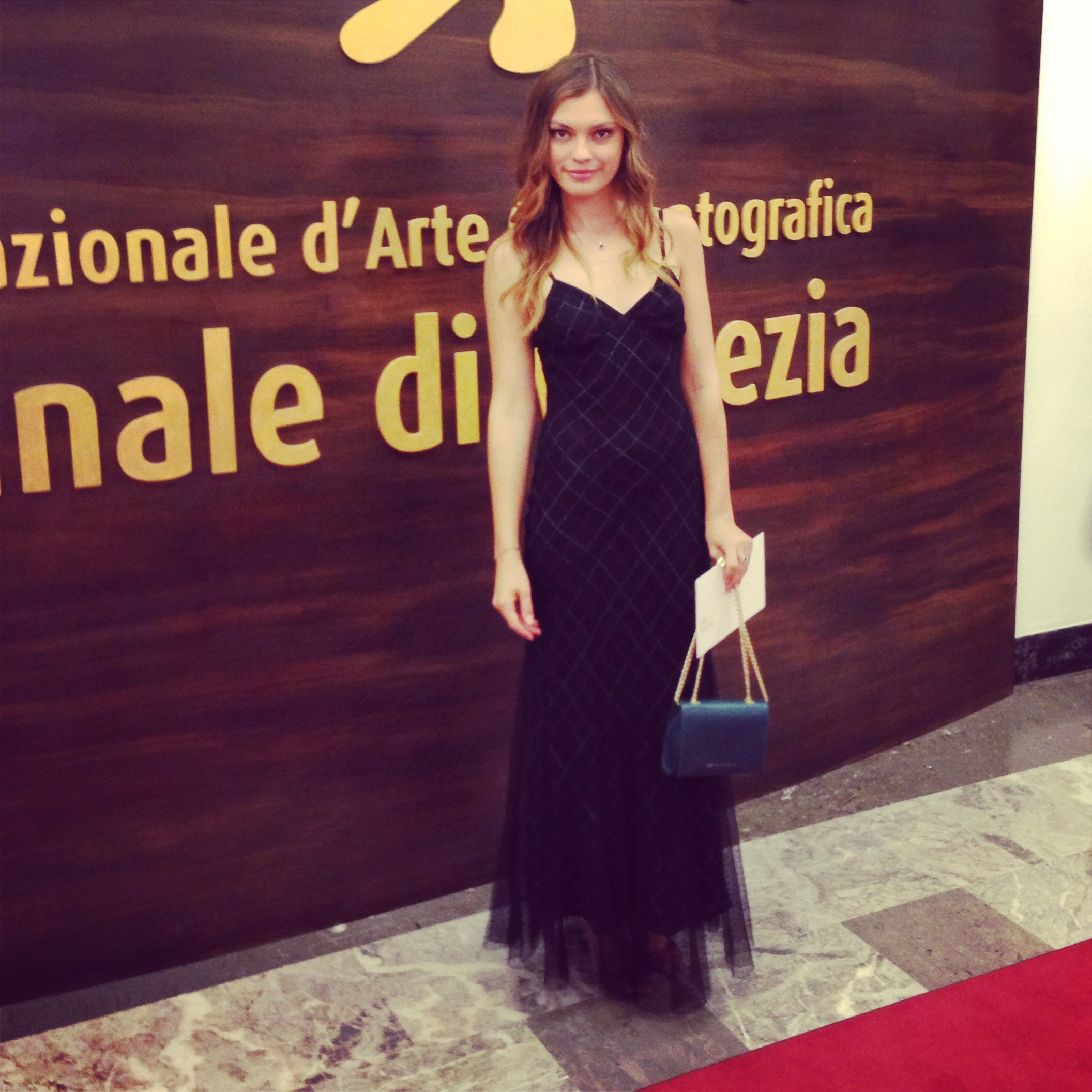 The Actress Silvia Busuioc at The Venice Film Festival 2013